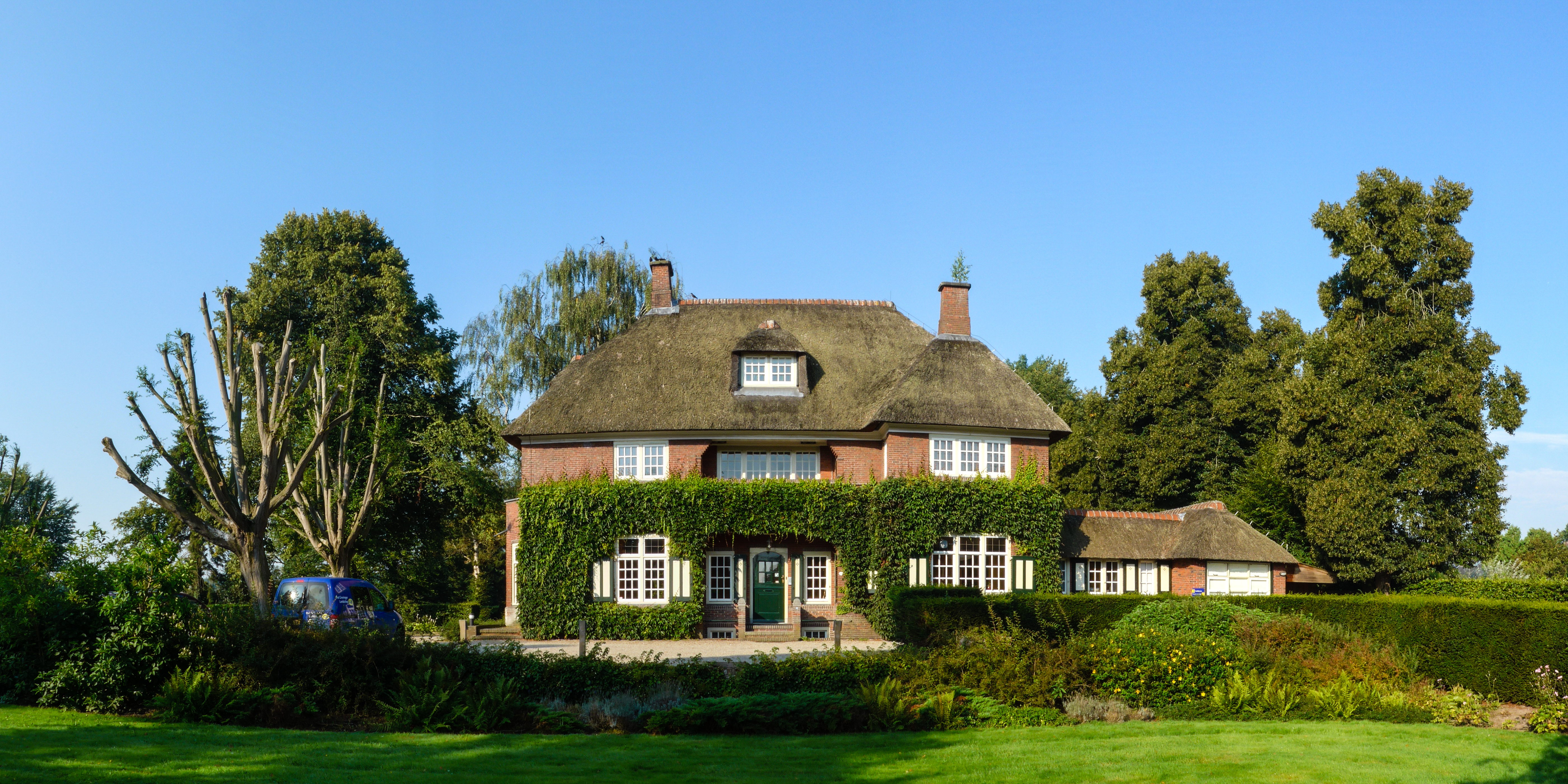 De Vennen (1920), a villa in Haren, a village in the Dutch province of Groningen.